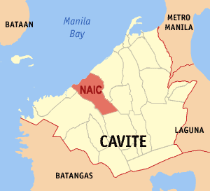 Map of Cavite showing the location of Naic